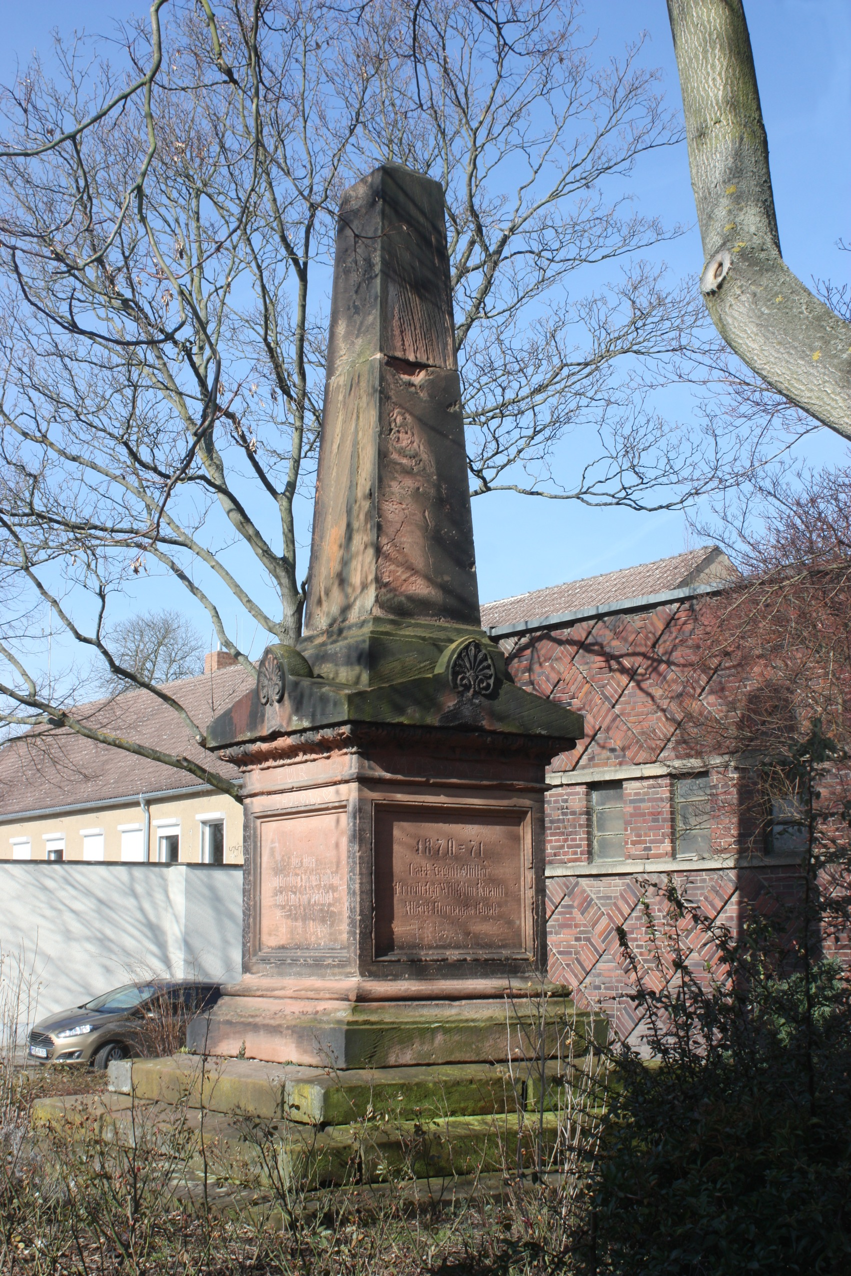 Trotha (Halle (Saale)), war memorial 1866, 1870-71